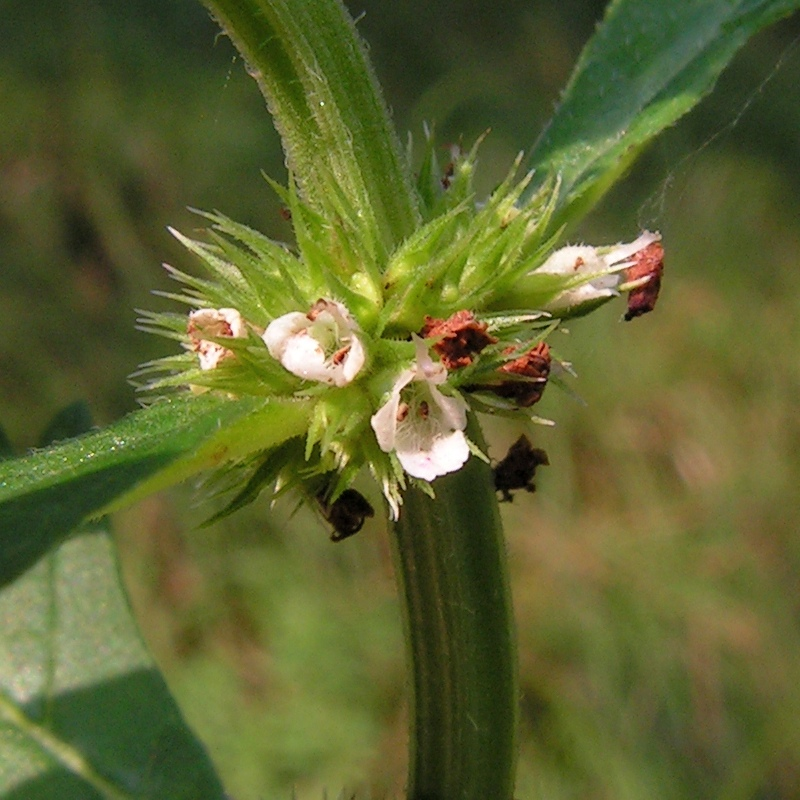 Flowers of Gypsywort. Moscow region, Russia.